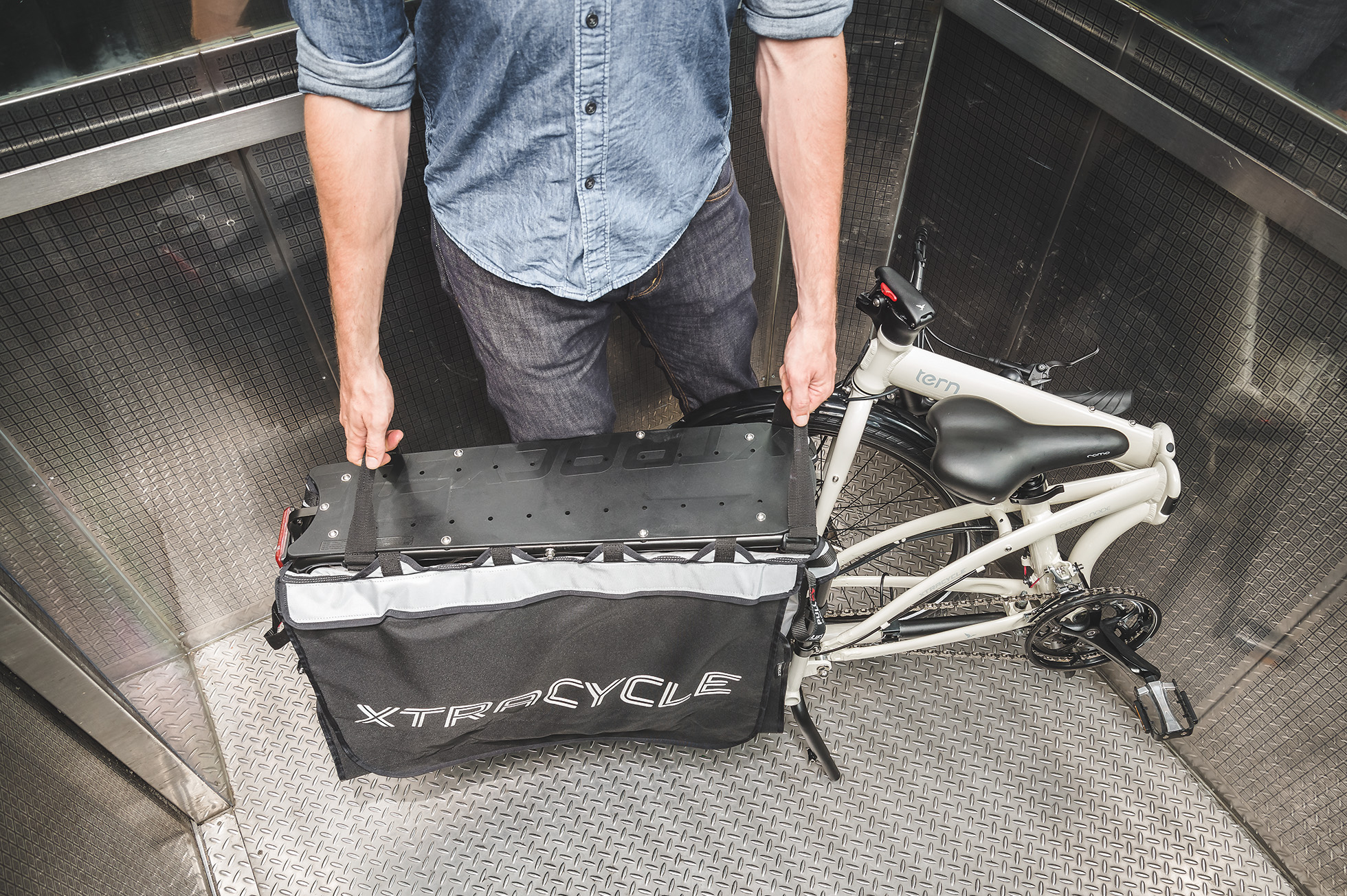 The Tern-Xtracycle Cargo Node folding cargo bike can fit in elevators and stores in places traditional cargo bikes usually can't.